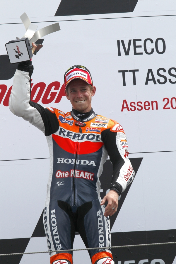 Casey Stoner, lifting his trophy and celebrating on the podium after winning the 2012 Dutch TT in Assen.